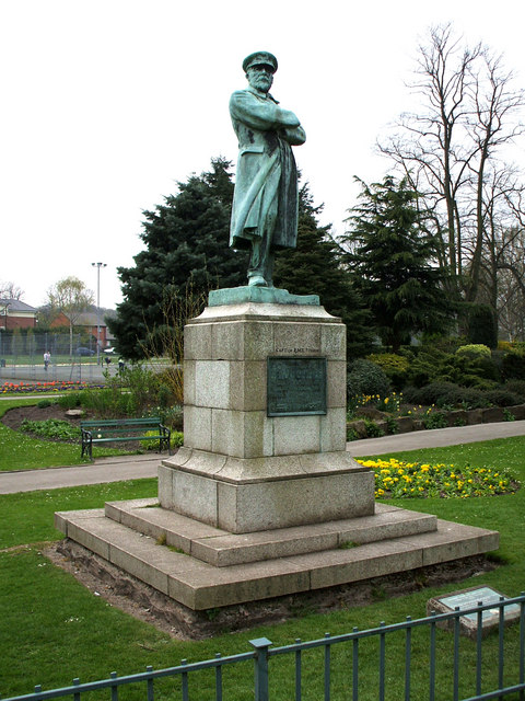 Captain Edward Smith statue, Beacon Park, Lichfield Captain Smith's statue was sculptured by Kathleen, Lady Scott, C.V.O and unveiled by the Captain's daughter Helen on 29th July 1914. The inscription reads: CAPT. OF R.M.S. TITANIC COMMANDER EDWARD SMITH R.D. R.N.R. BORN JANUARY 27 1850 DIED APRIL 15 1912 BEQUEATHING TO HIS COUNTRYMEN THE MEMORY & EXAMPLE OF A GREAT HEART A BRAVE LIFE AND A HEROIC DEATH ~ BE BRITISH